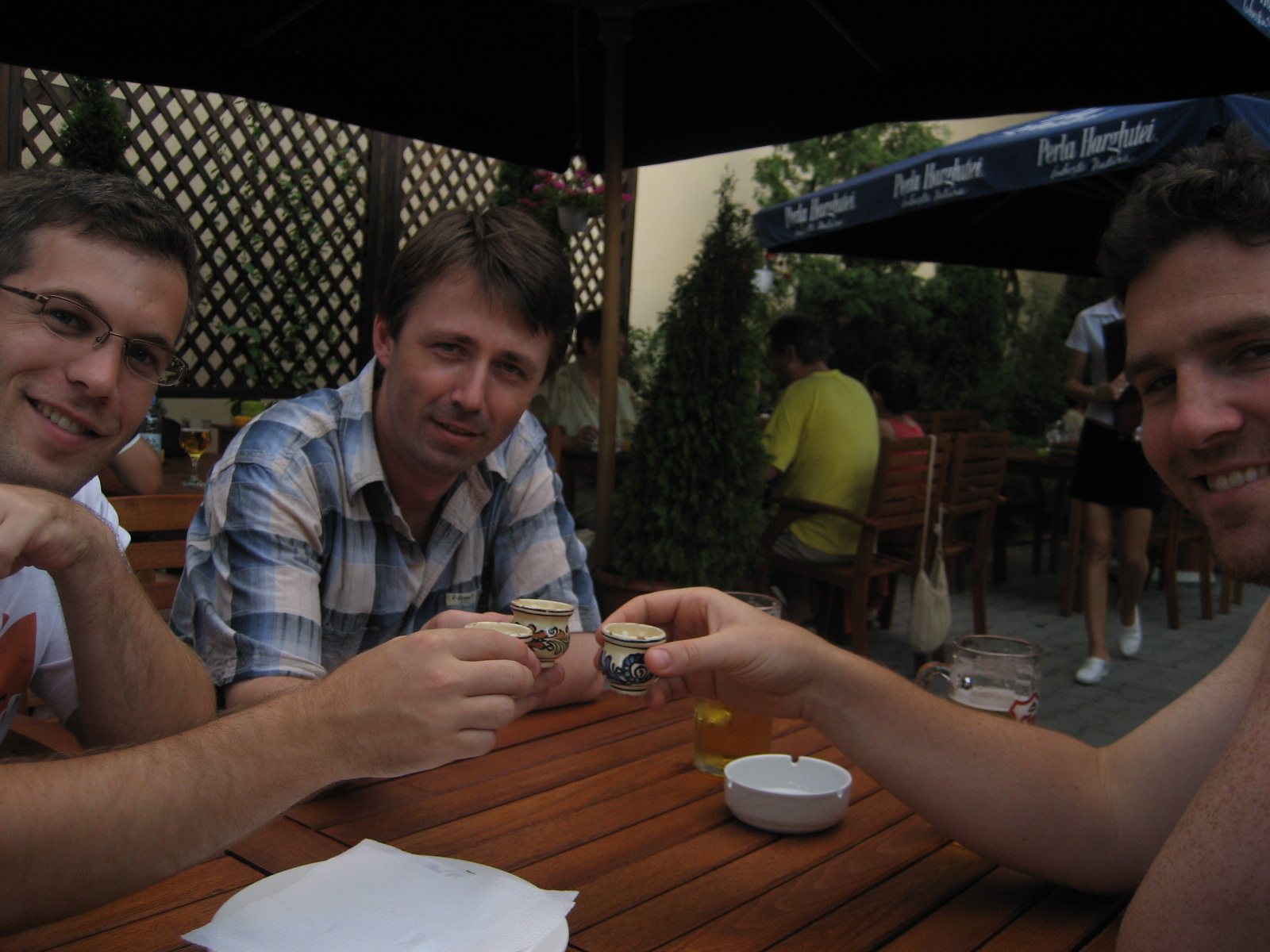 This photo was taken on July 23, 2007 in Tyrgu-Muresh, Mureş County (Romania) using a Canon PowerShot SD600.